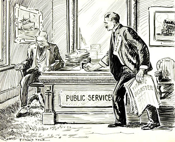 The Margin of Safety Is Too Narrow! An original cartoon depicting a man representing "the public" with a copy of a newspaper with the headline "TITANIC DISASTER" pounding his fist on a "PUBLIC SERVICES" desk belonging to a man representing "the companies"